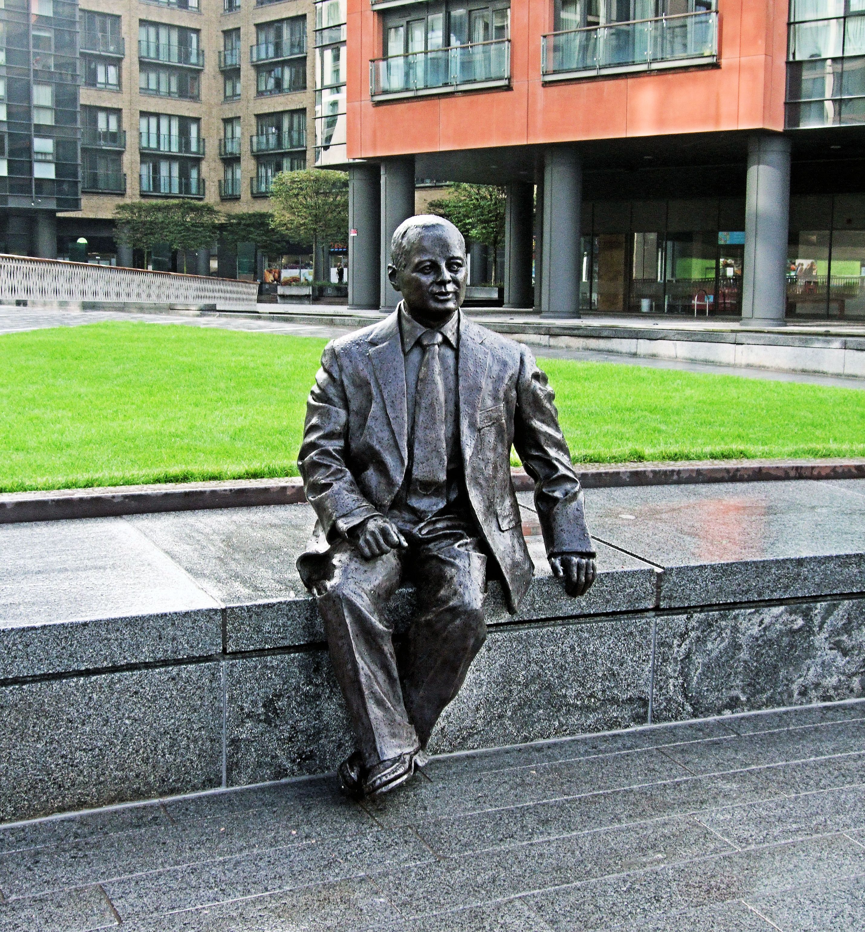 Bruce Denny's statue of former London deputy mayor Sir Simon Milton unveiled in 2013. Sir Simon, who died in 2011 at the age of 49 after a long battle against cancer, was deputy mayor for planning and policy and chief of staff to mayor Boris Johnson.